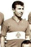 Lineup of the Lebanon national football team at the 1966 Arab Nations Cup.Bottom row (from right to left): Abu Kasabian, Ragheb Shaker, Adnan Mekdache (Adnan Al-Sharqi), Mohamed Chatila, Mahmoud Burjawi (Abu Talib);Tom row (from right to left): Samih Chatila, Sohail Rahal, Tabello (Muhieddine Itani), Elias George, Habib Kamouna, Joseph Abu Murad.